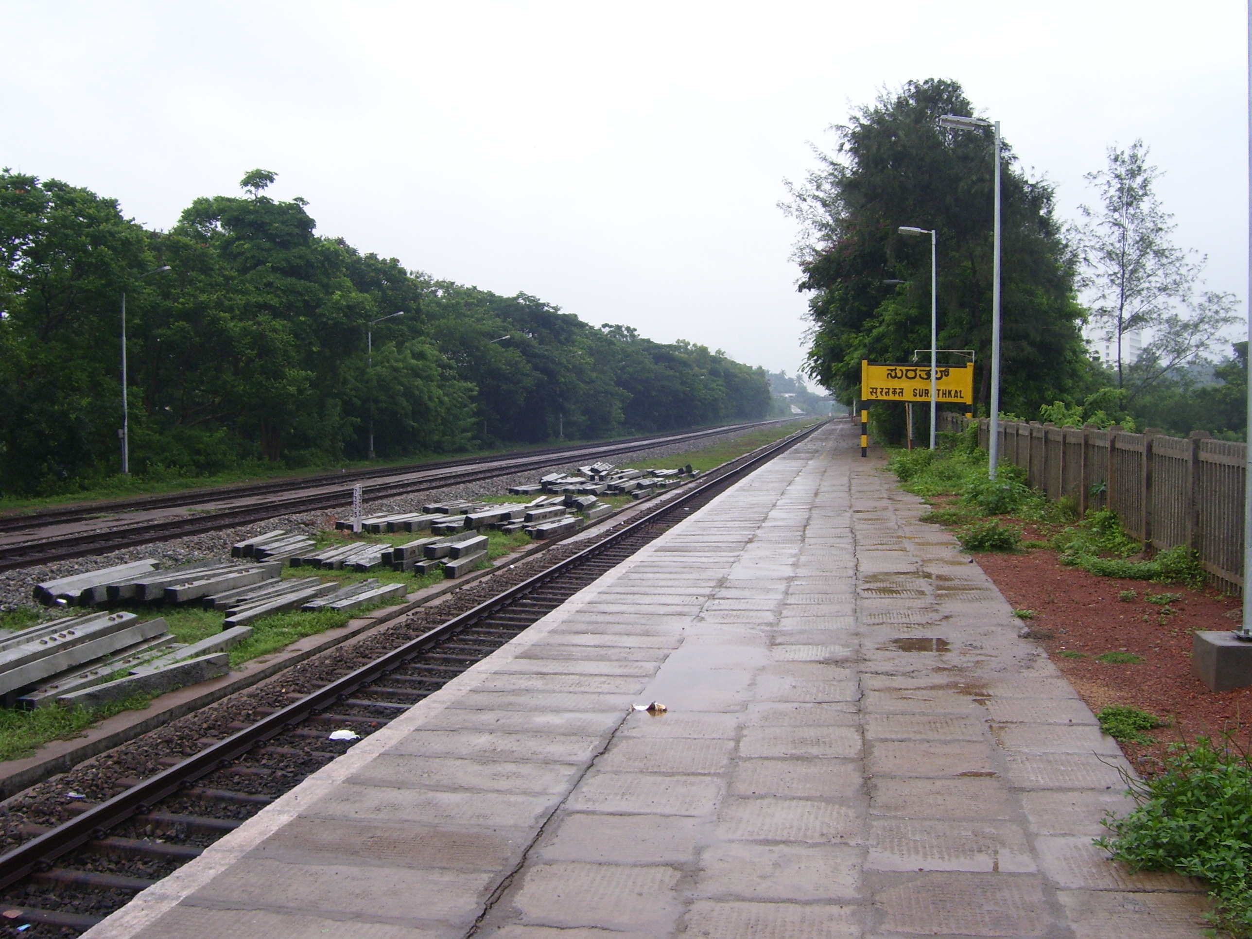 Photo showing platform of Surathkal railway station. The Surathkal railway station is situated on Konkan railway Mumbai ( Bombay ) to Mangalooru ( Mangalore ) route.Surathkal is approximately 20 kilometre north from heart of Mangalore city.